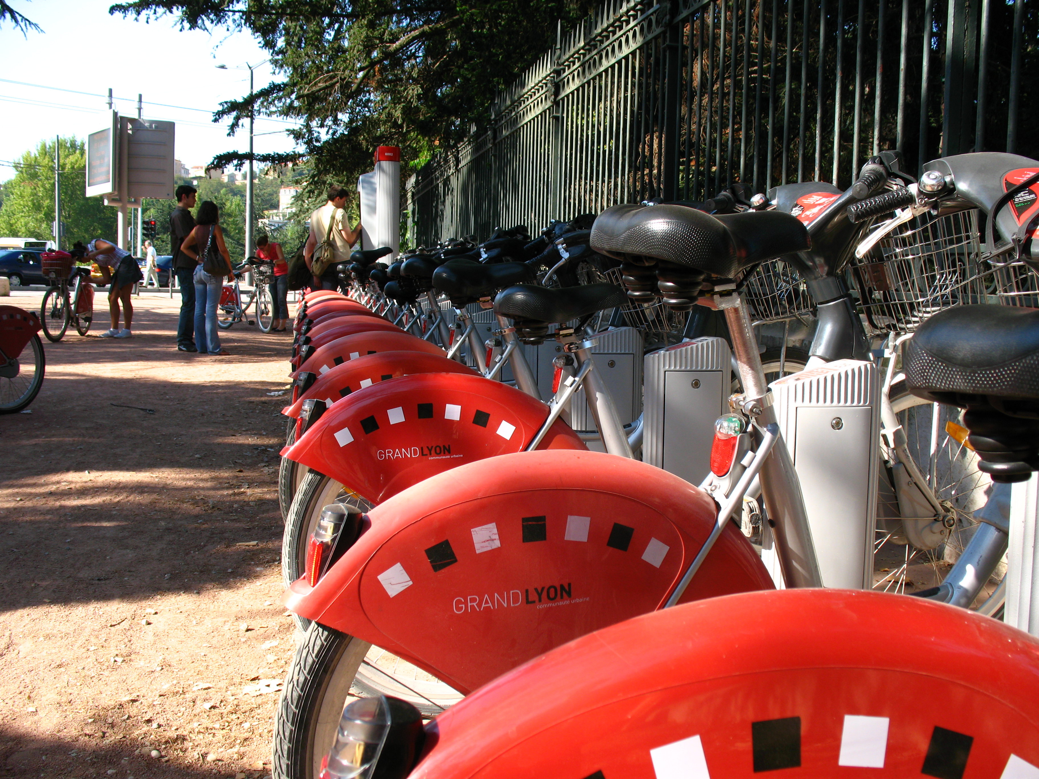 A Vélo'v Station in Lyon near the Parc de la Tête d'Or